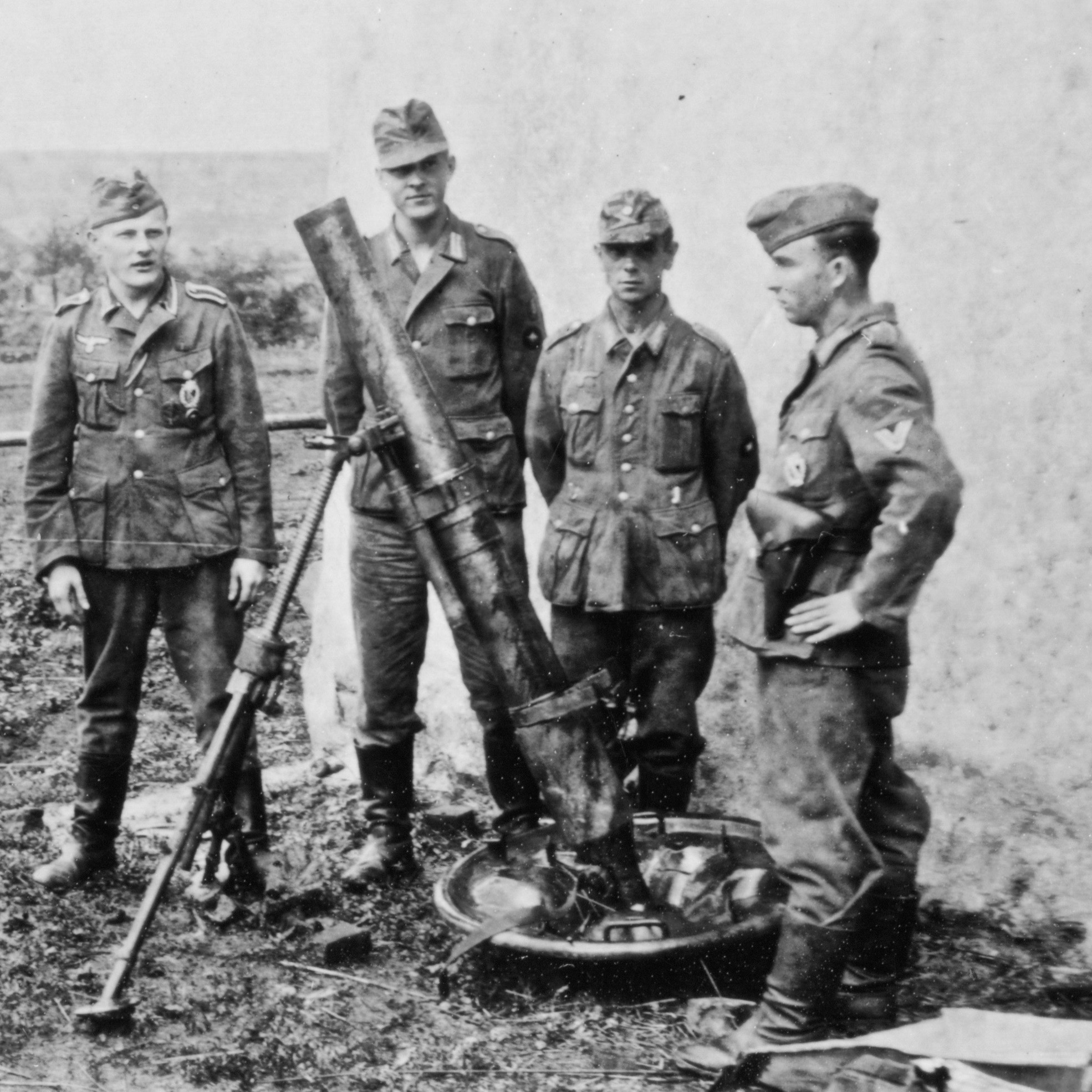 4 Wehrmacht soldiers stand next to a Granatwerfer 42 heavy mortar. The photo was taken on the Eastern Front, probably in 1943.